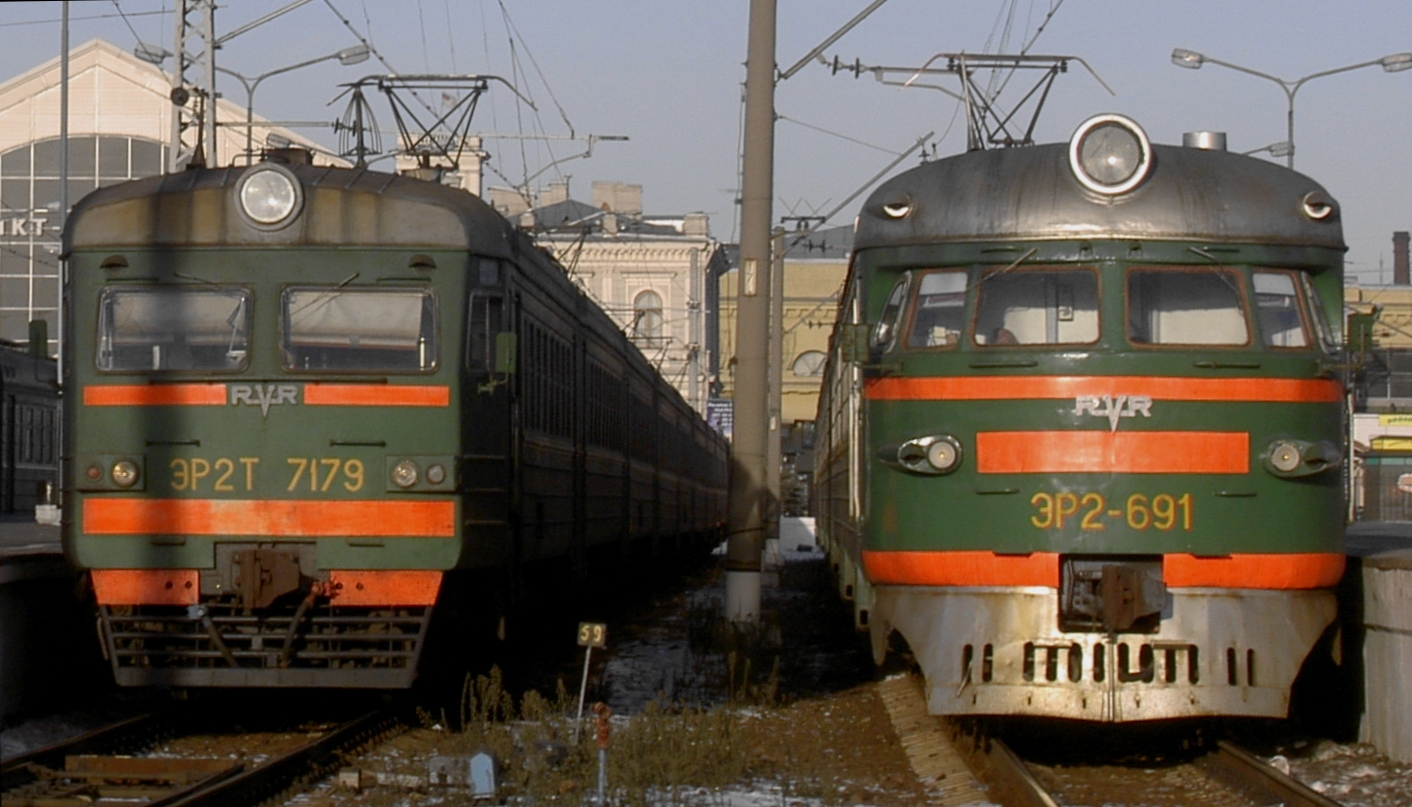 ER2 and ER2T train in the Baltic rail terminal in Saint Petersburg